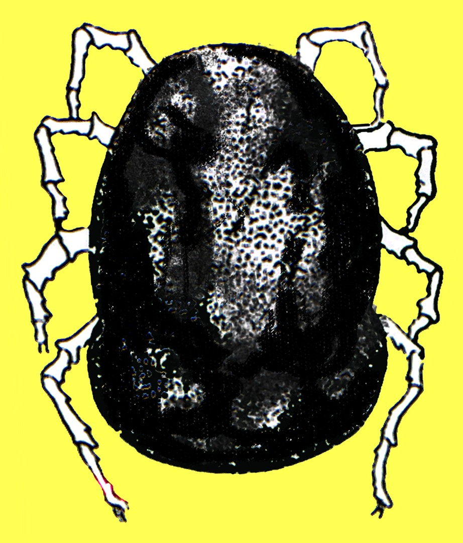 Ornithodorus moubata (Soft tick)